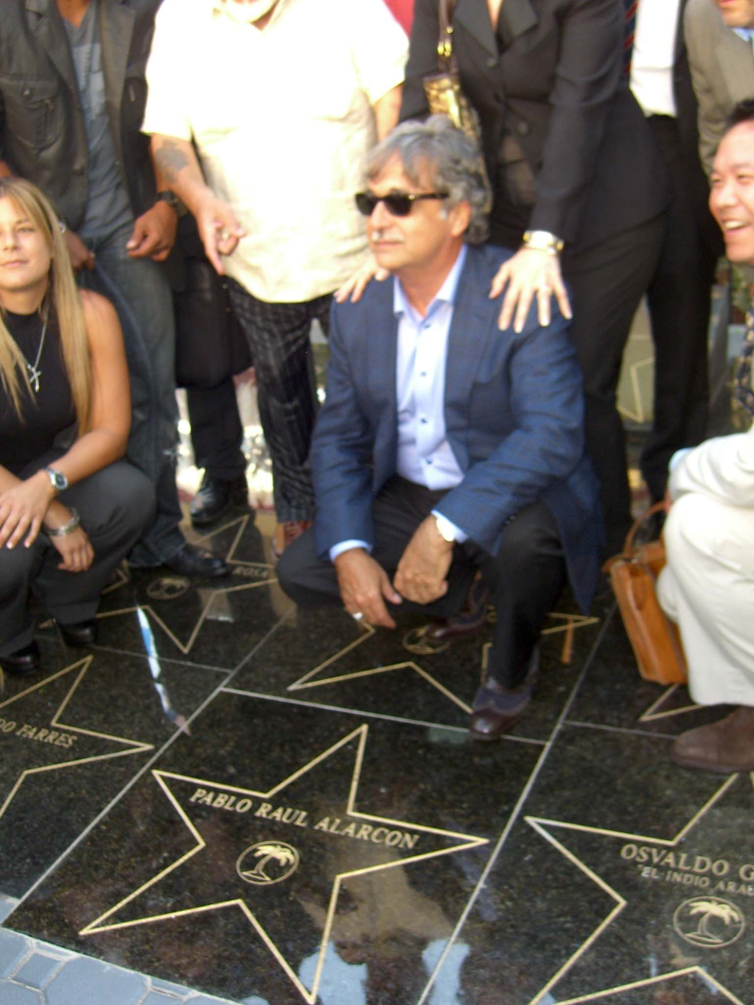 Radio broadcaster and Spanish Broadcasting System co-founder Raúl Alarcón, Jr. in Union City, New Jersey, where he accepted honors for his father, Pablo Raúl Alarcón, Jr., on June 2, 2011 with a star at the Celia Cruz Plaza Walk of Fame for contributions to the world of Latin entertainment and media, along with Grammy winner Jon Secada (standing at right) and singer Roberto Torres. Photographed by Luigi Novi. This photo is not in the public domain. It may, however, be used, modified and published for any purpose, free of charge, only if the photographer is properly credited, either by linking the photograph to this page, or with an easily visible credit to the photographer placed near the photo in each instance in which it is used. (See licensing information below.) Publication of this photo without this proper attribution constitutes copyright infringement. If you have any questions, you can contact me on my Wikipedia Talk Page.